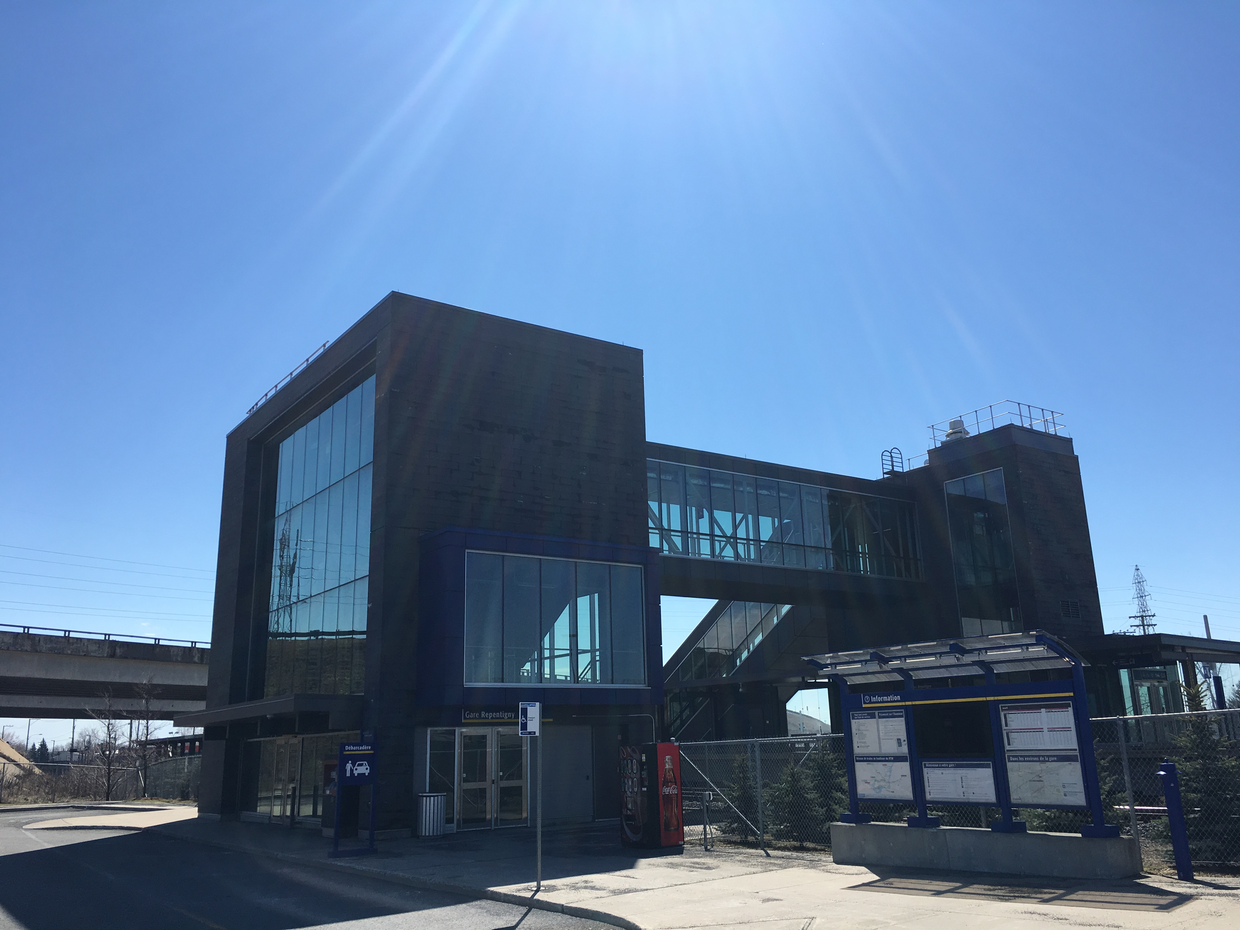 Repentigny (exo) train station